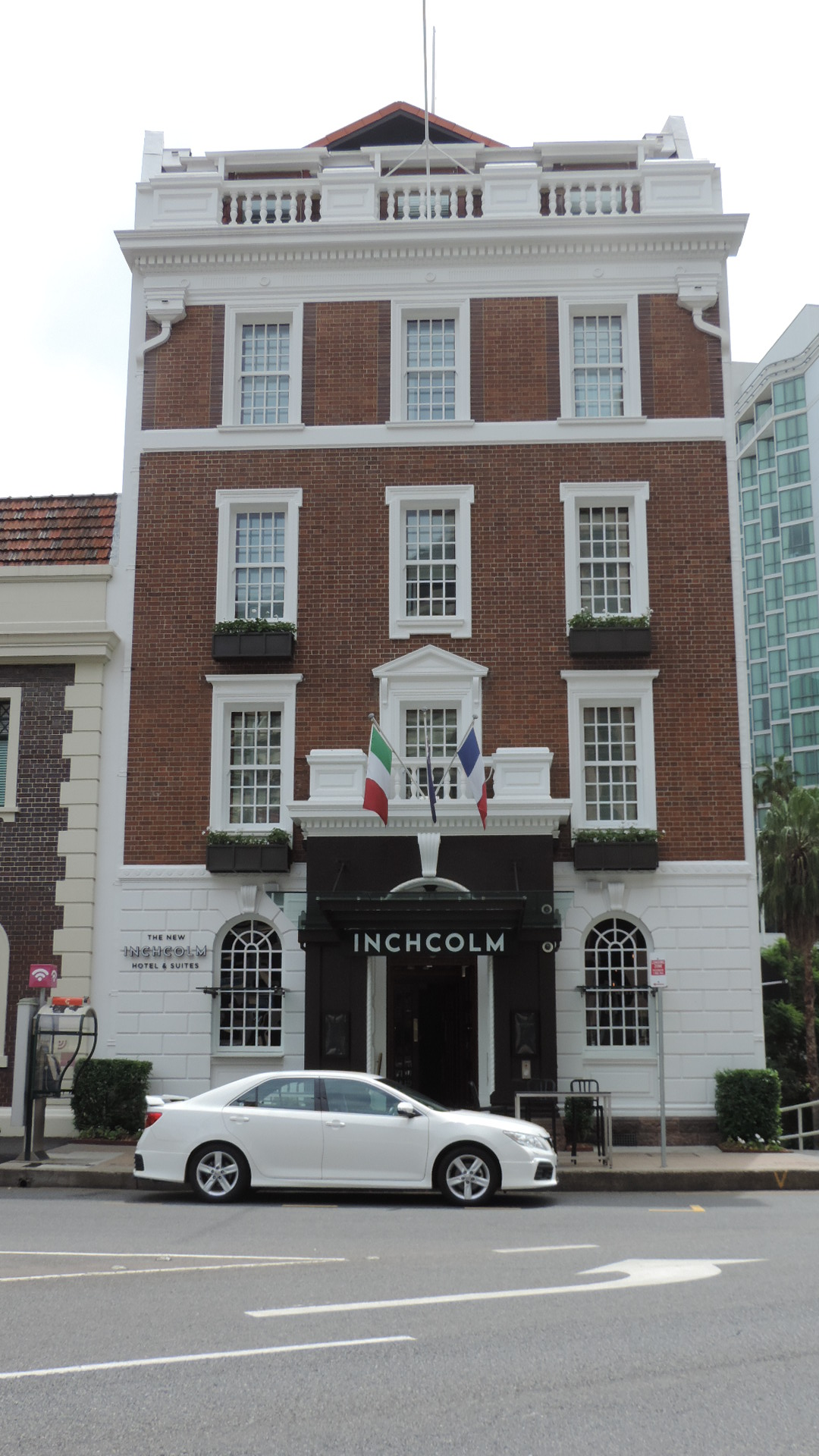 Inchcolm, Wickham Terrace, Spring Hill, 2015